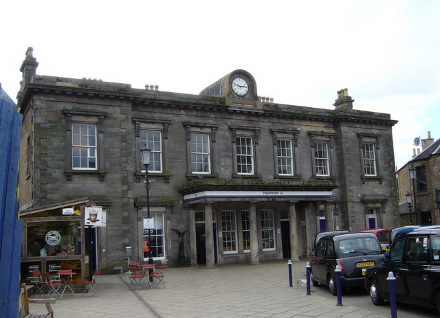 Haymarket Station This was originally the eastern terminus of the Edinburgh & Glasgow Railway Company when the line was opened in 1842. The first train to run from Haymarket to Waverley via Princes Street Gardens came four years later after completion of the Haymarket tunnel.